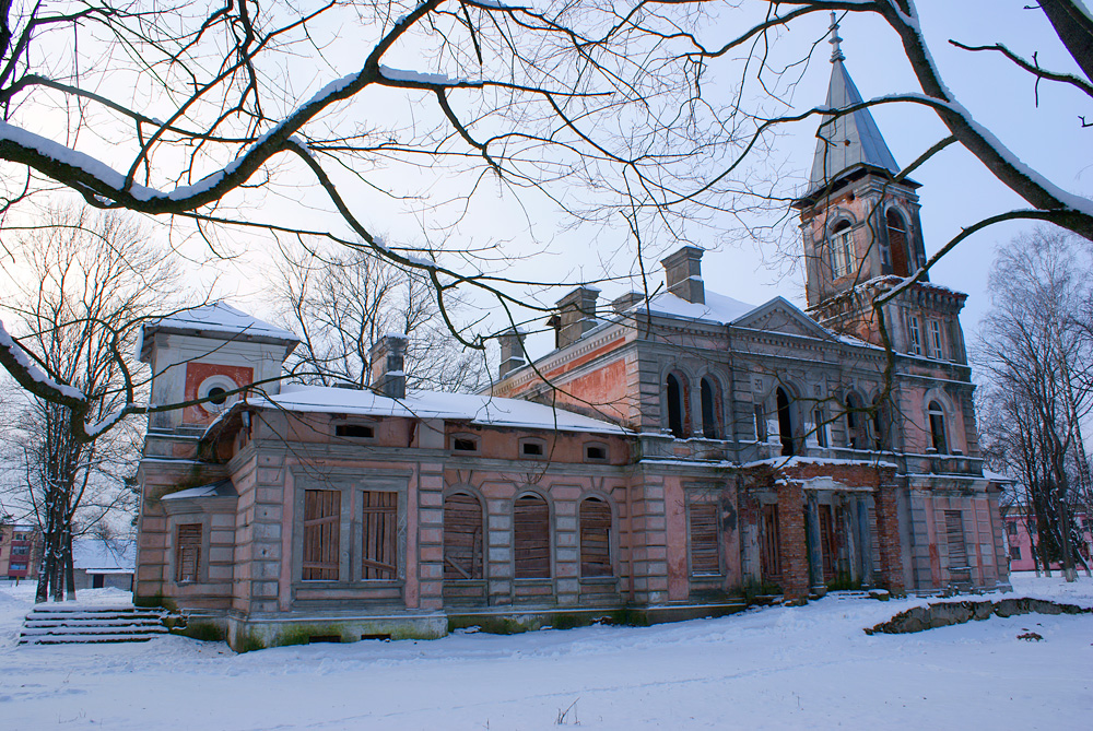 Katłubaj Estate in Jastrambiel